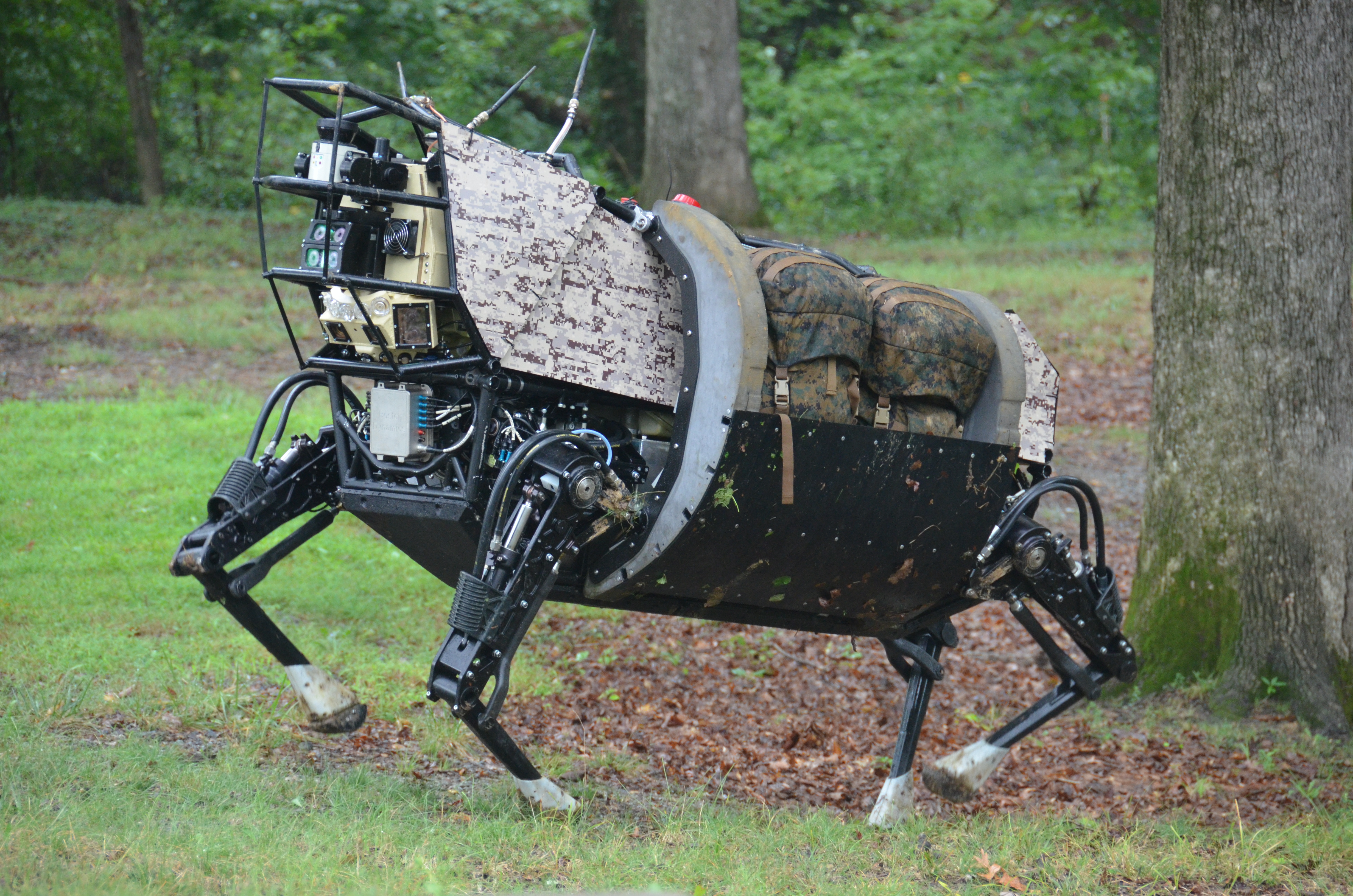 Legged Squad Support System robot prototype, 2021, DARPA image.